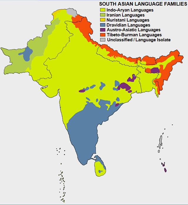 South Asian Language Families, translated from Image:Südasien Sprachfamilien.png, from Language families and branches, languages and dialects in A Historical Atlas of South Asia, Oxford University Press. New York 1992. Nihali, Kusunda, and Thai languages are not shown. Author - User:BishkekRocks Translated by User:Kitkatcrazy